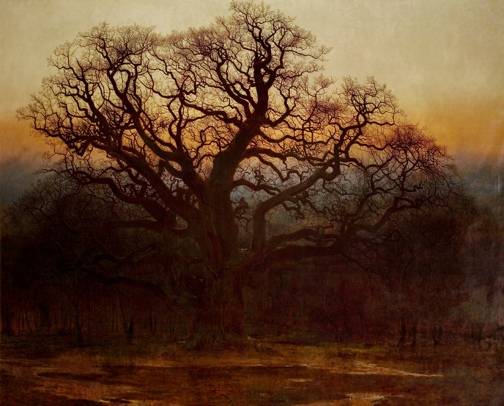 Major Oak, Sherwood Forest, Nottinghamshire, landscape painting by Andrew McCallum.